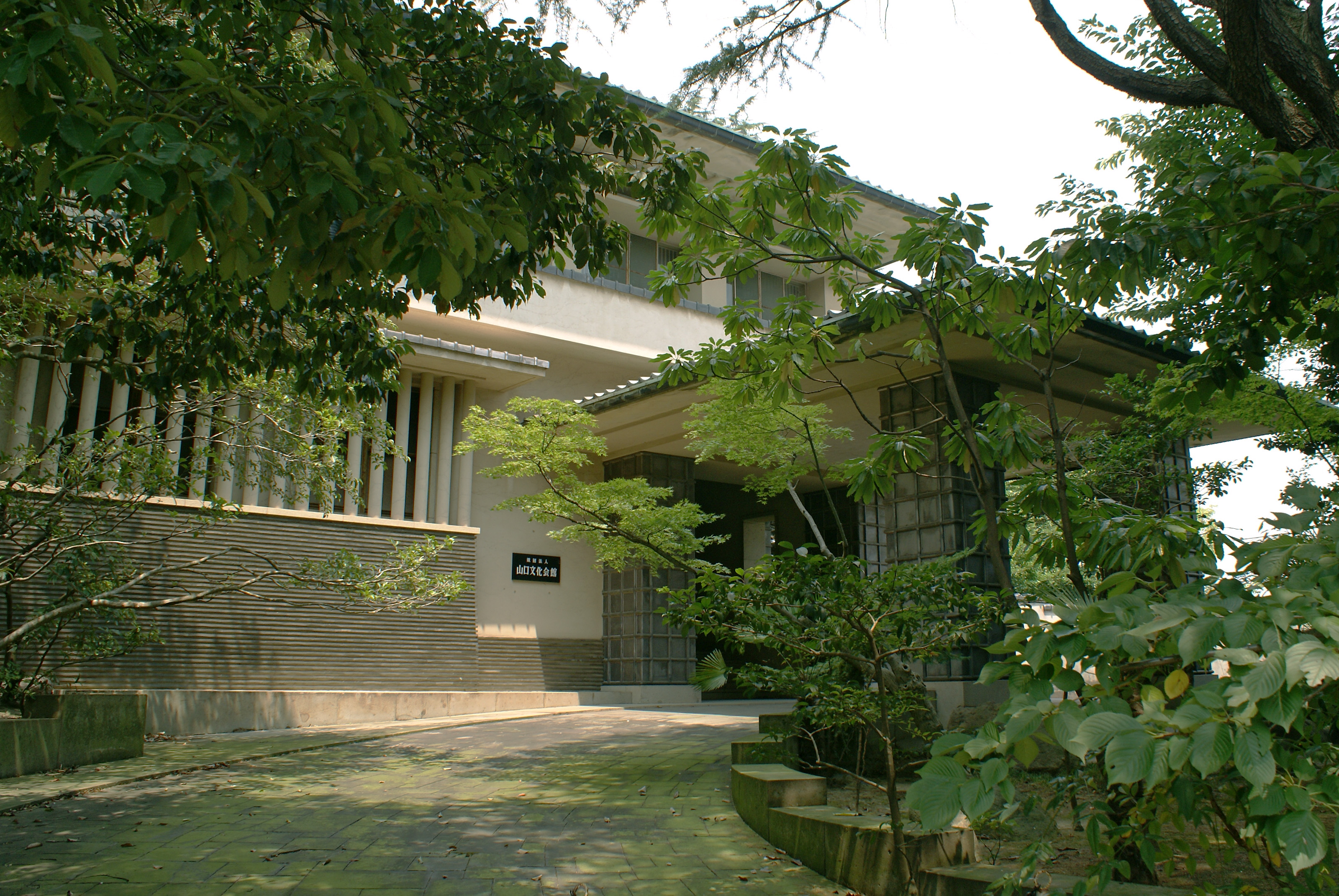 Tekisui Museum of Art in Ashiya, Hyogo prefecture, Japan